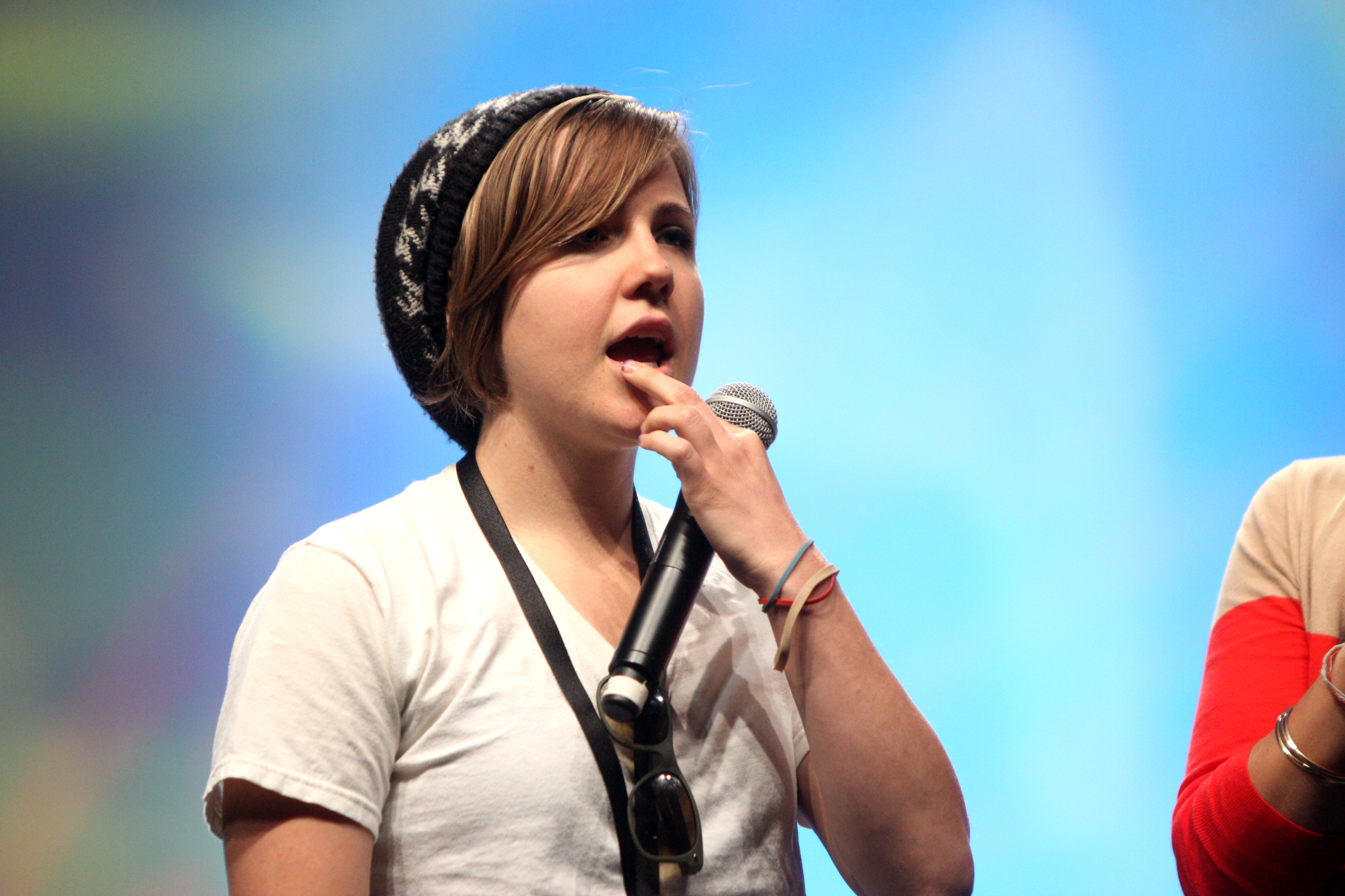 Hannah Hart speaking at VidCon 2012 at the Anaheim Convention Center in Anaheim, California.